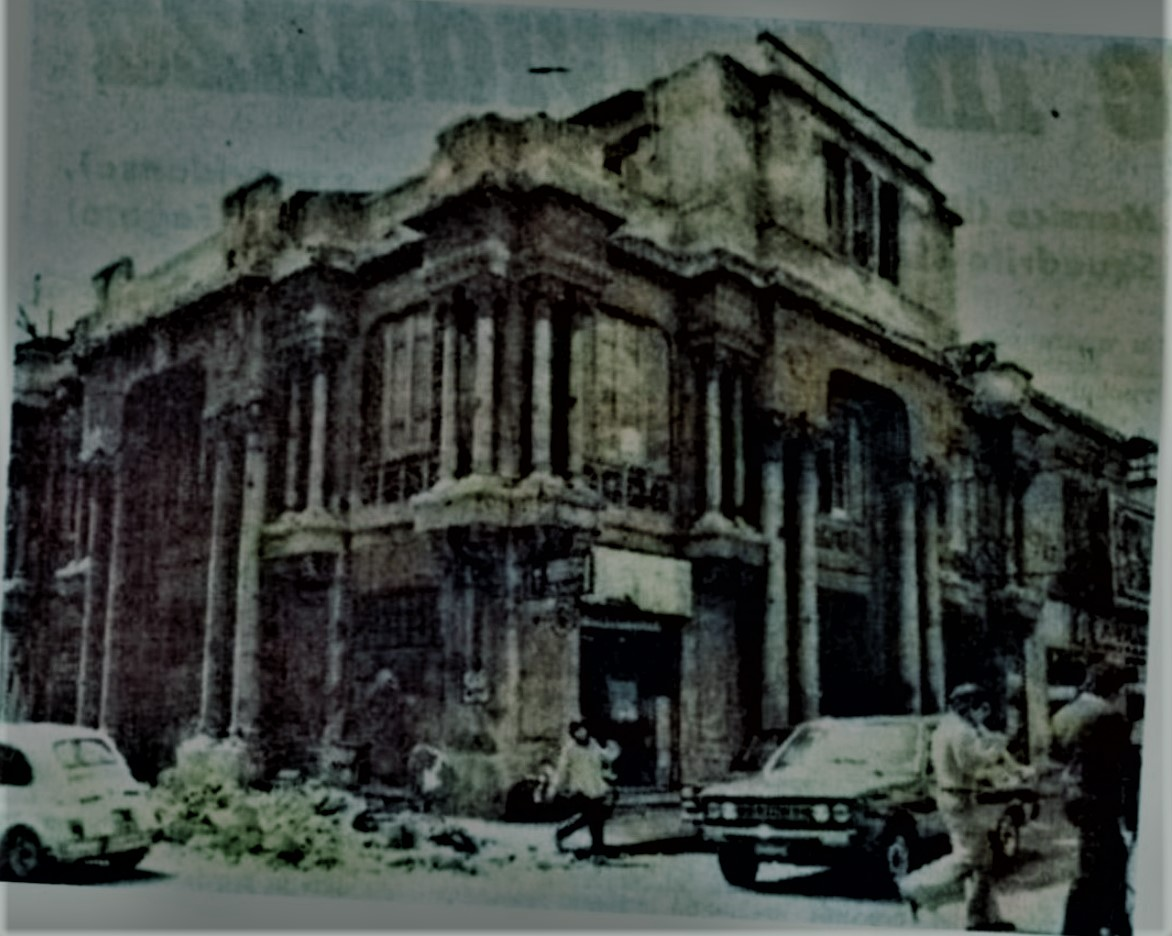 Il Cine-Teatro Trinacria, all'incrocio tra la Via Maddalena e Via Giordano Bruno a Messina, 1970.